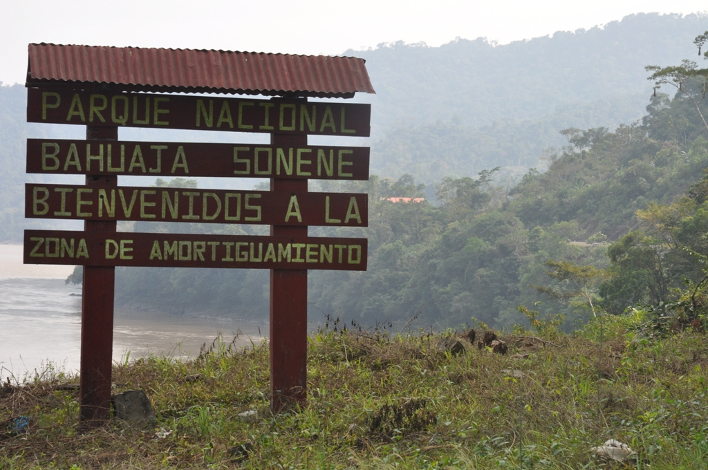 Bahuaja sign 001